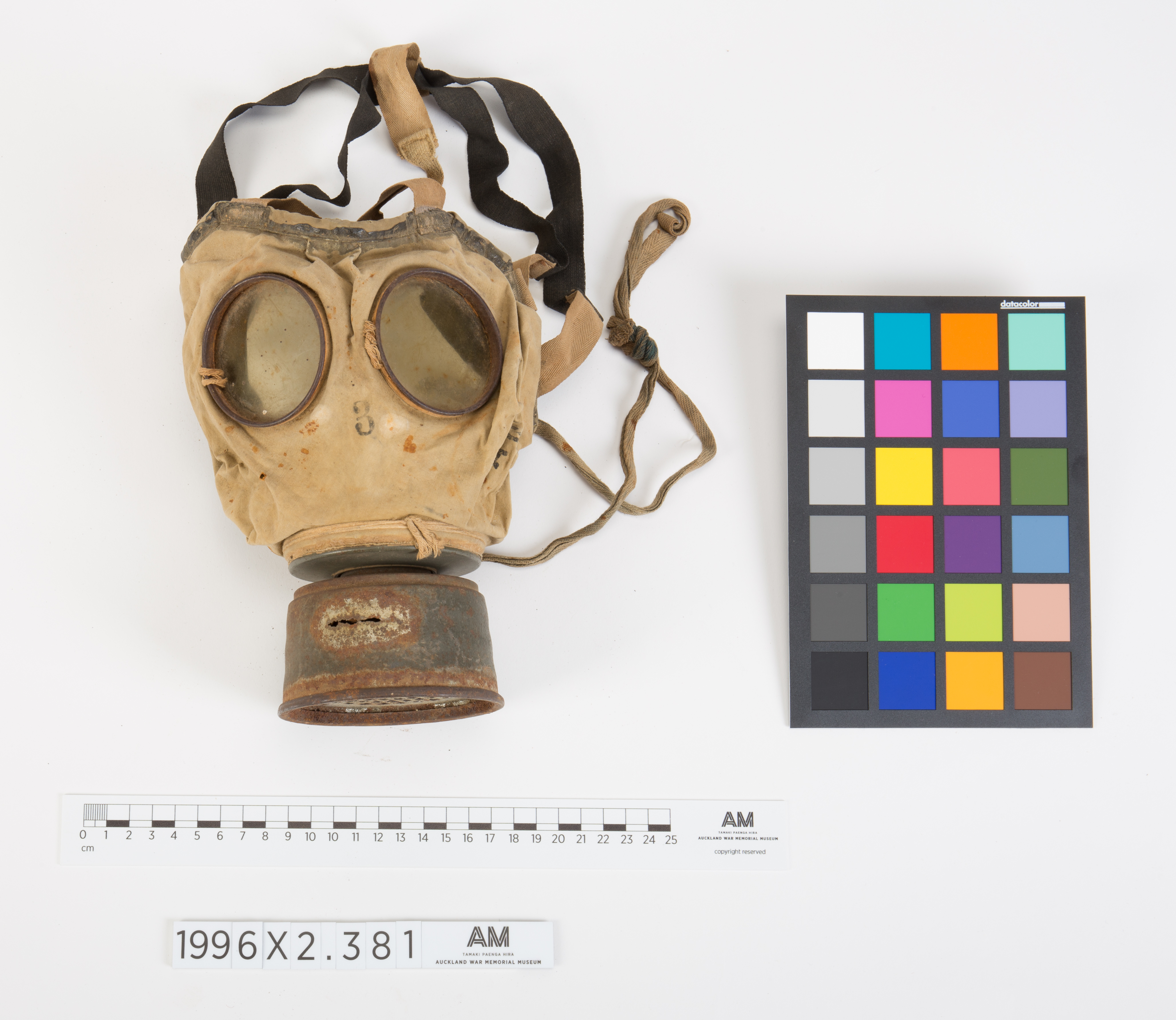 Gas mask, WW1